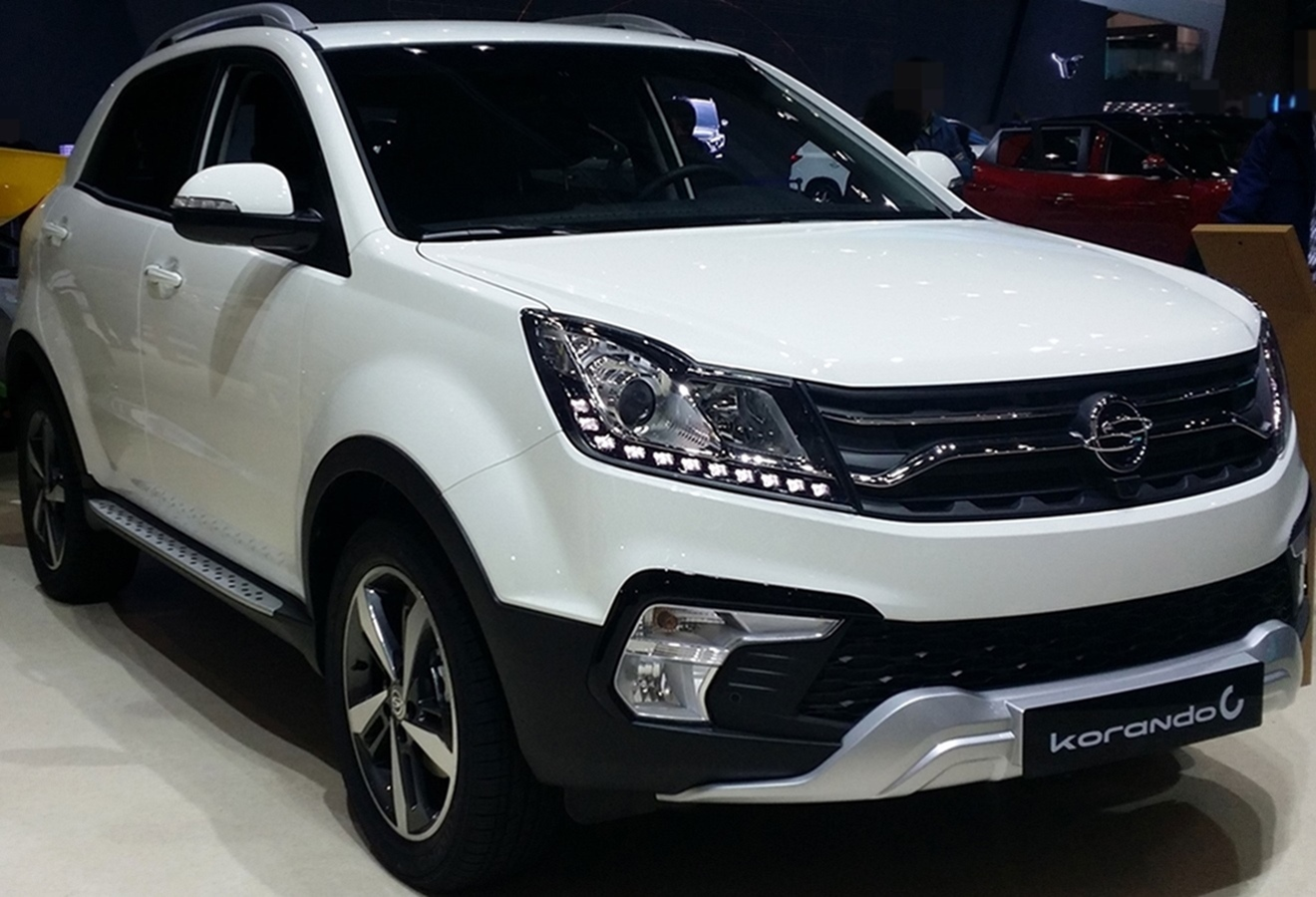 SsangYong New Style Korando C